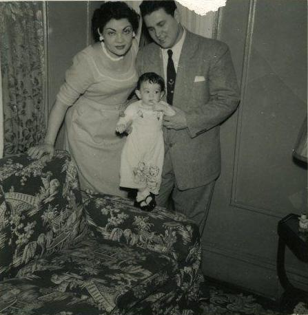 Judge Sonia Sotomayor with her mother and father. Part of a slide show, "Sotomayor Bio: Picutures from Throughout Judge Sotomayor's Life" According to the May 2009 White House copyright policy, "Except where otherwise noted, third-party content on this site is licensed under a Creative Commons Attribution 3.0 License." No alternative licensing information is given for these photos, so they are assumed to be available under the Creative Commons Attribution 3.0 License.